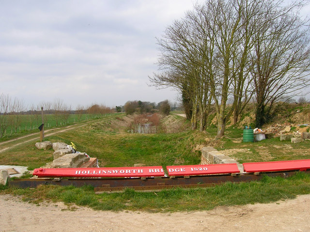 Site of Stewart Bridge, Portsmouth to Arundel Canal. The inscription is actually from the site of another bridge 138575, one of seven swing bridges that crossed the former Portsmouth and Arundel Canal. The canal was first proposed during the Napoleonic Wars in order to link Portsmouth with Chatham in Kent to enable the navy to move supplies between the two naval ports without harrasment from the French. However, it was only started in 1818 and completed in 1823. By then the wars were long finished and the route no longer needed. The canal struggled until its owners went bankrupt and it was finally closed in 1849. The only surviving part is the link from Chichester Harbour to Chichester, the rest is now dry or built over. This view looks west from the outhouses of Barnham Court Farm.